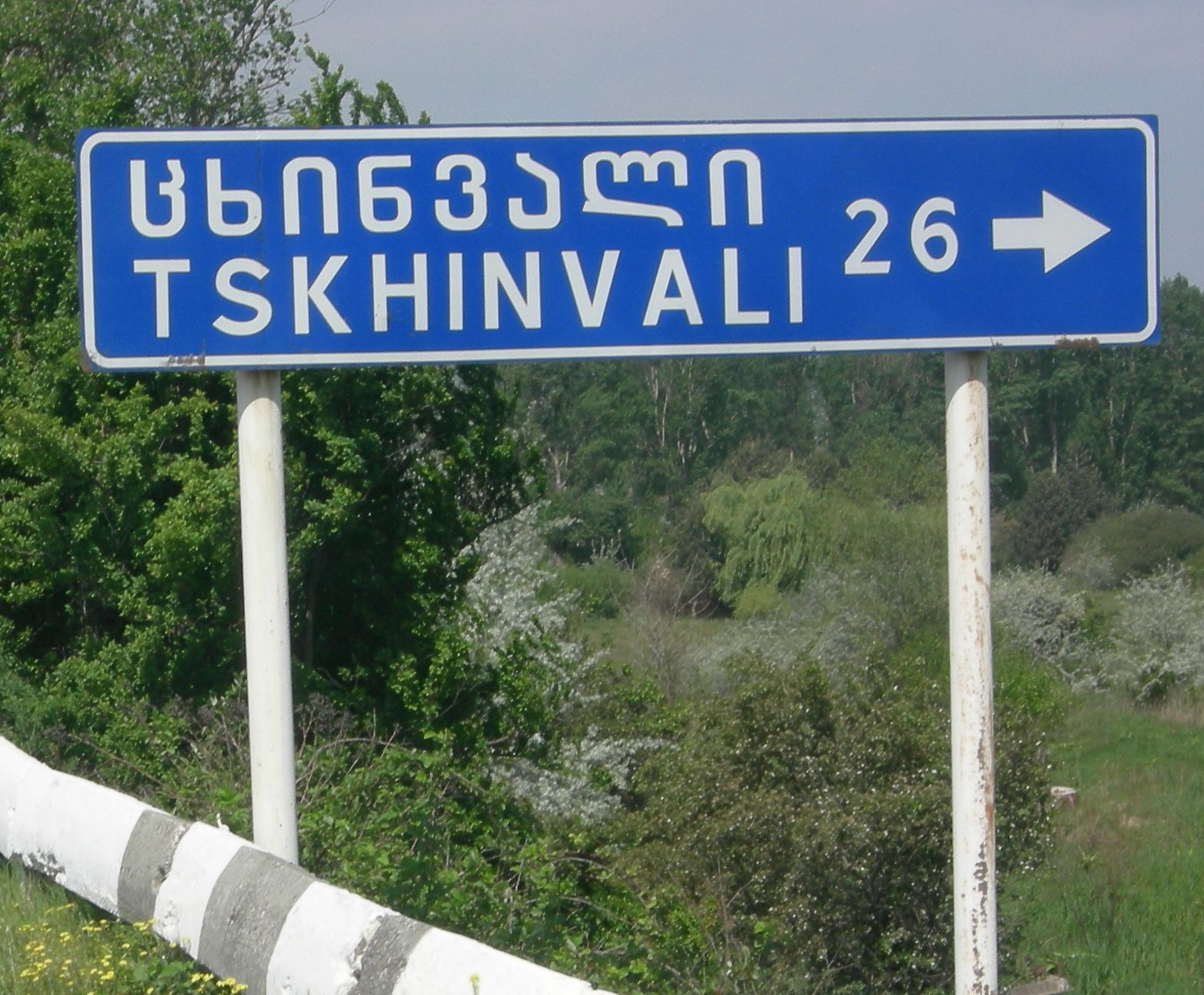 Road sign for Tskhinvali, not far from Gori